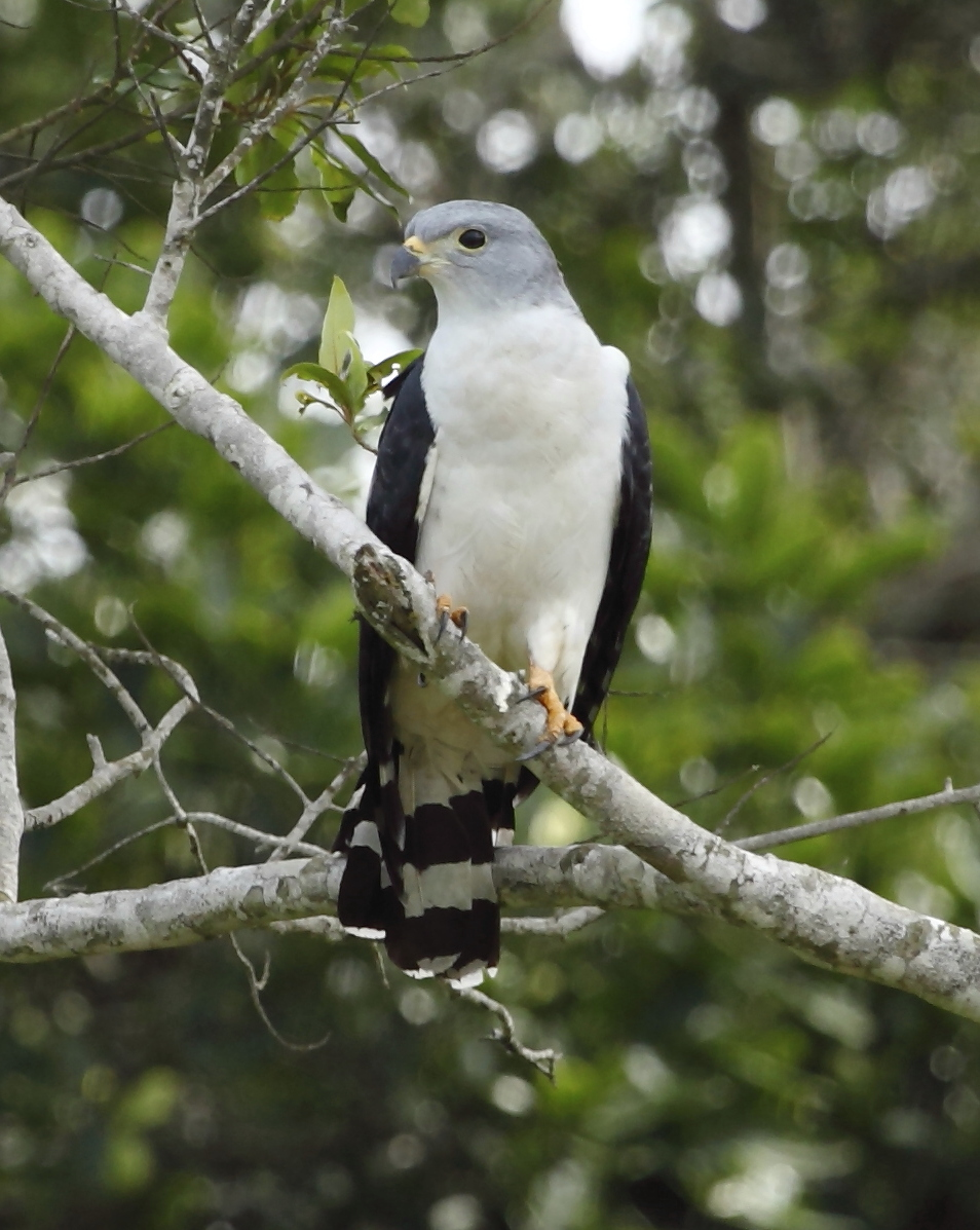 Gray-headed kite at Restinga de Bertioga state park - SP - Brasil